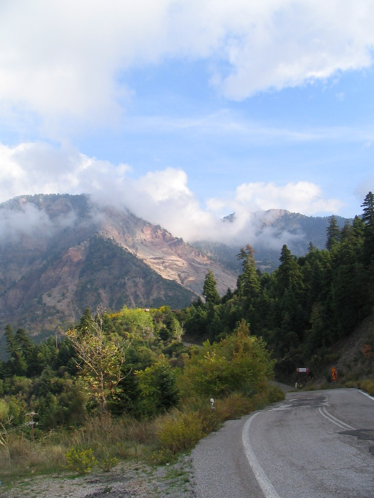 driving over the mountains is central Greece